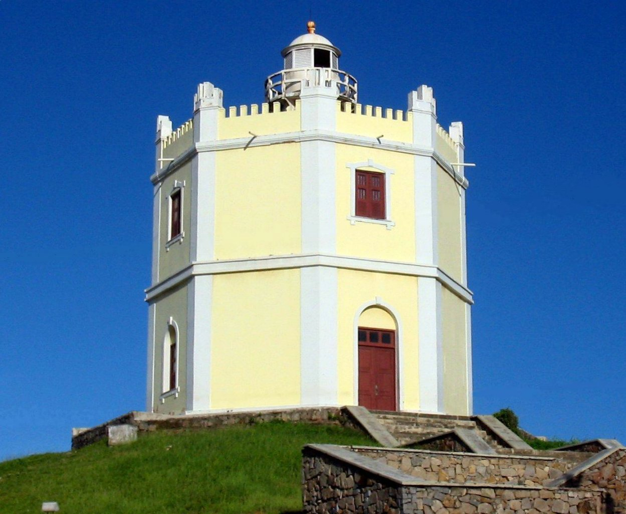 Fortaleza old lighthouse or Mucuripe old lighthouse (historic).